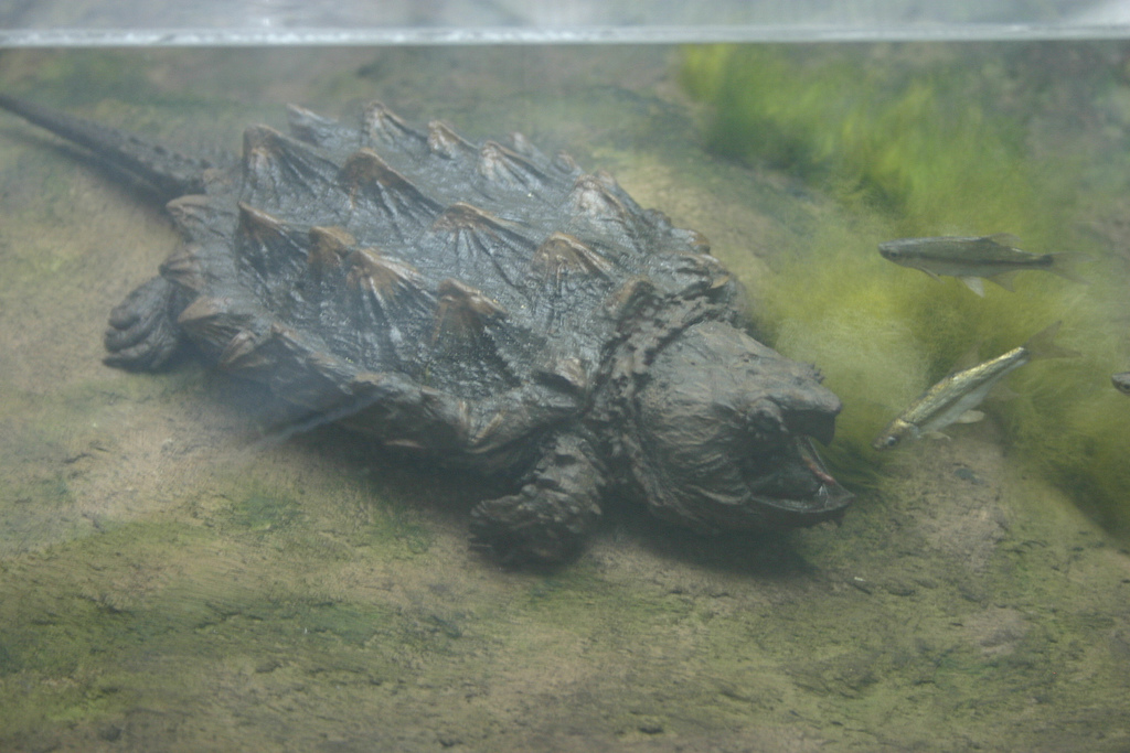 Macroclemys temminckii